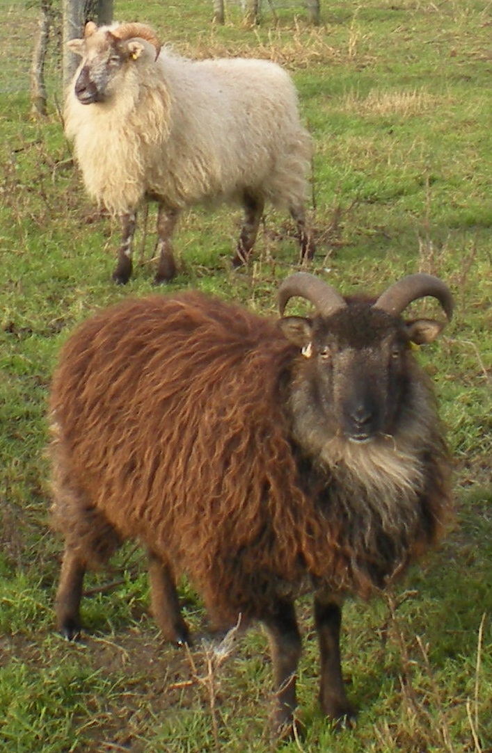 Our two younger Borerary ewes, Leia (the brown one) and Leelou